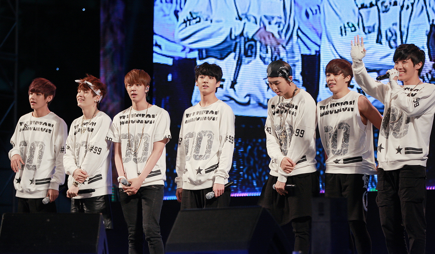 BTS at the Culture and Arts Festival in Seoul Plaza on October 13, 2013.